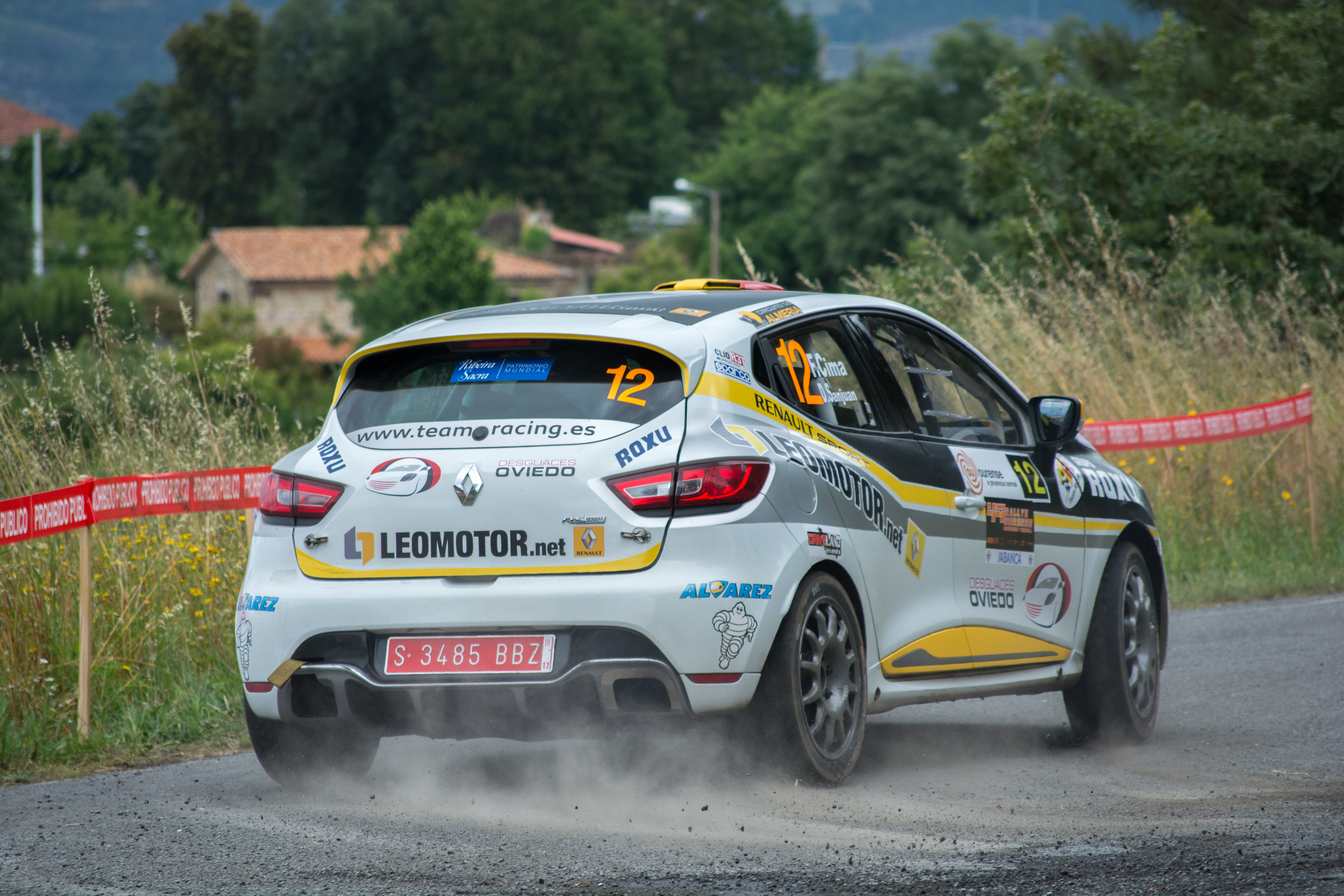 '49 TRally de Ourense ' in 2016, in the city of Ourense, scoring for the CERA.